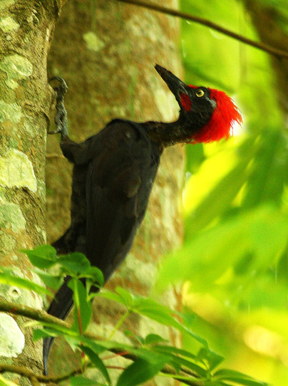 Andaman Woodpecker (Dryocopus hodgei) on a tree. "The rare endemic of Andaman Islands, this woodpecker is a sight to behold flying from tree to tree in the forest"